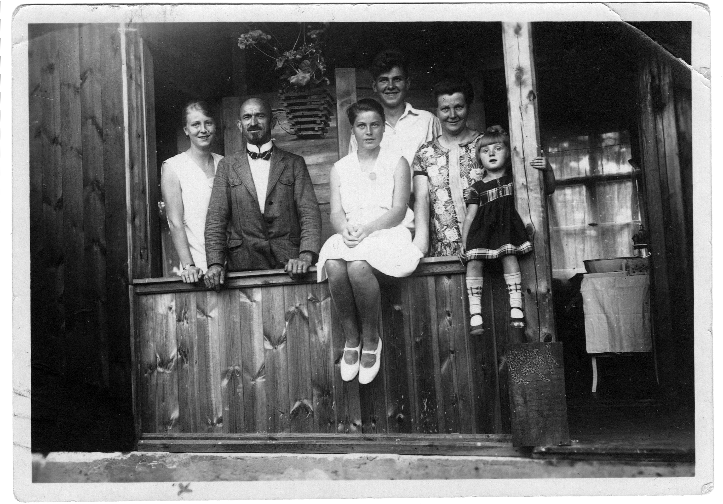 The Seidemann family in front of the newly built open-air vegetarian and diet holiday guest house called "Hope", Bad Freienwalde, 1929